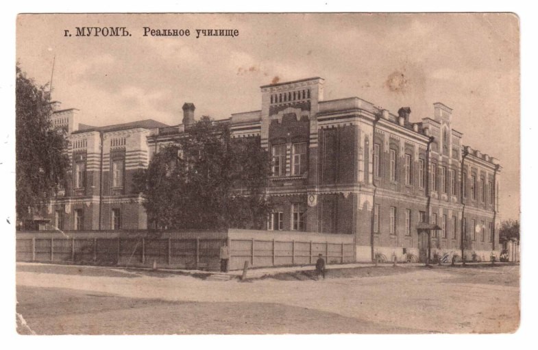 Murom High school for boys